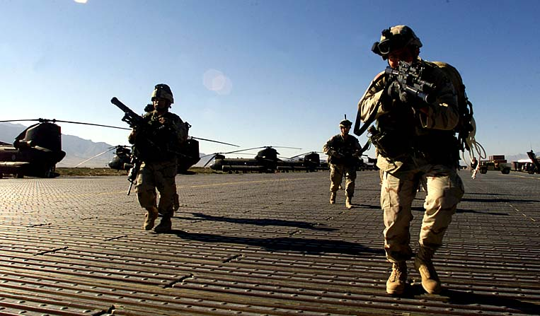 A quick reaction force squad dismounts from a CH-47 Chinook helicopter during static load training in Bagram, Afghanistan.